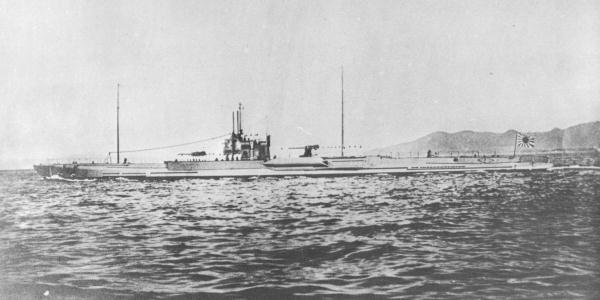 Japanese Submarine I-5 (JUNSEN-class, type I new), comleted July 31, 1932.